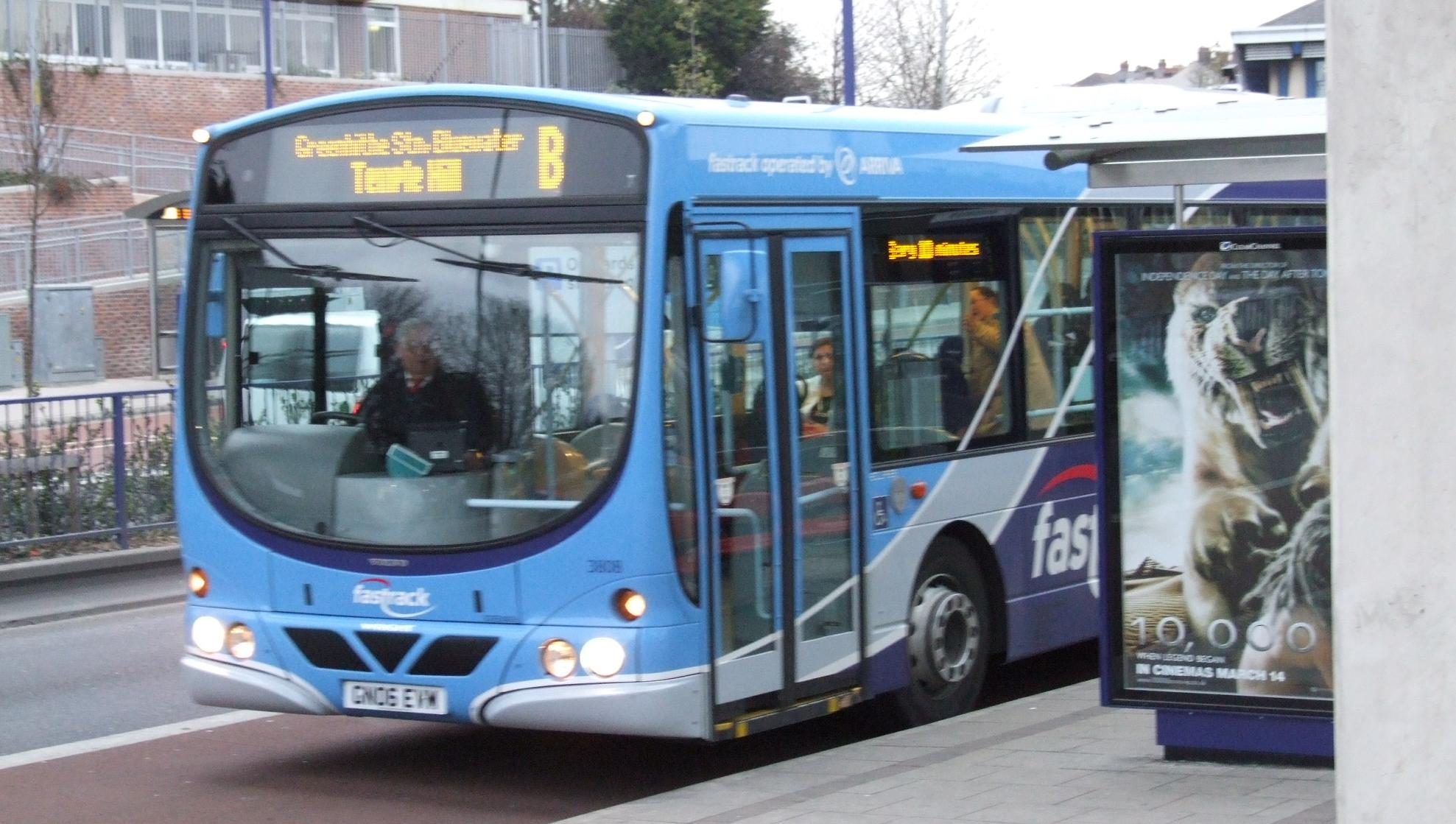 Fastrack bus run by Arriva, in Dartford. 3808 (GN06 EVM), a Volvo B7TL/Wright Eclipse Urban.